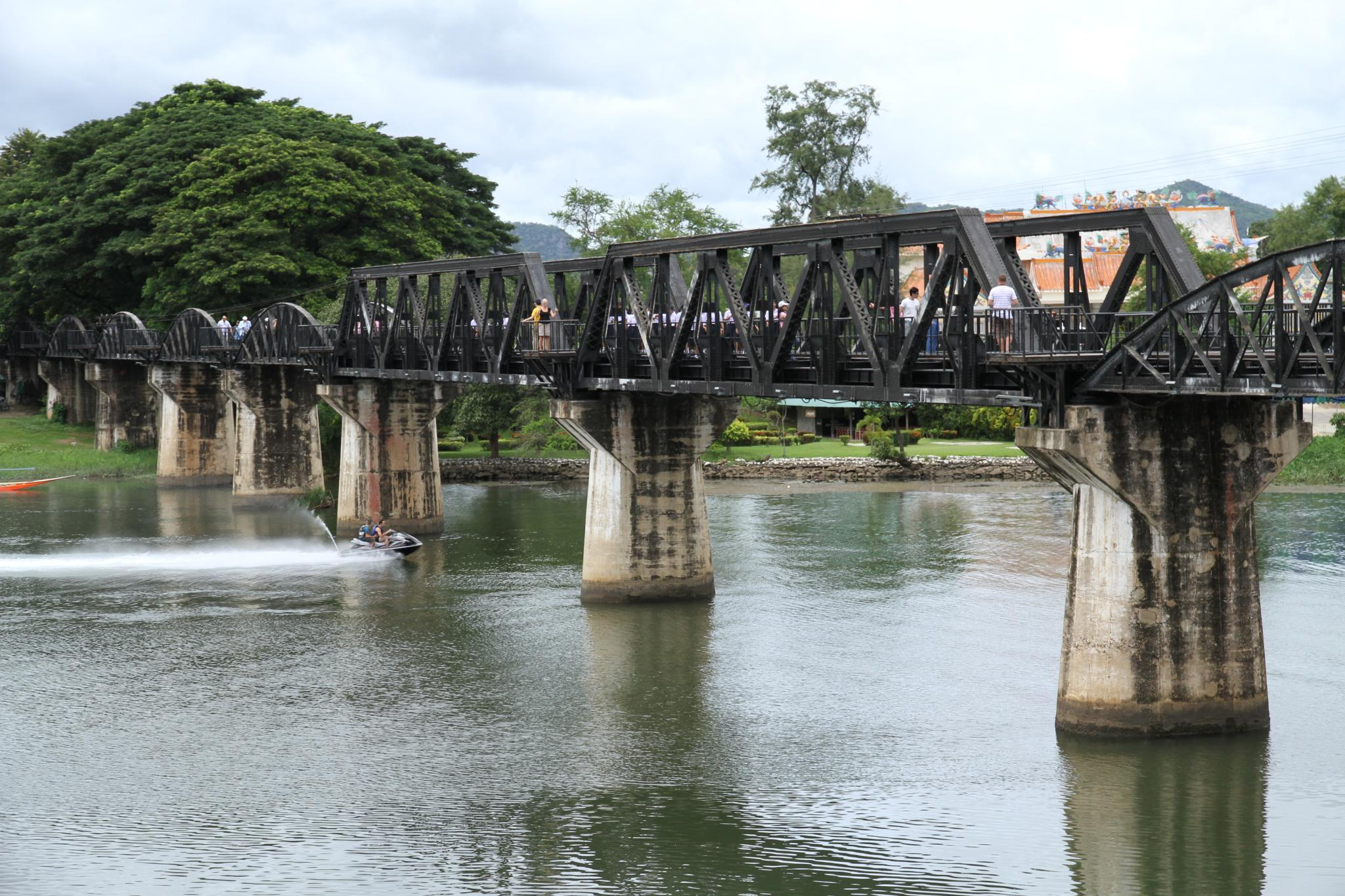 Bridge over the river Kwai